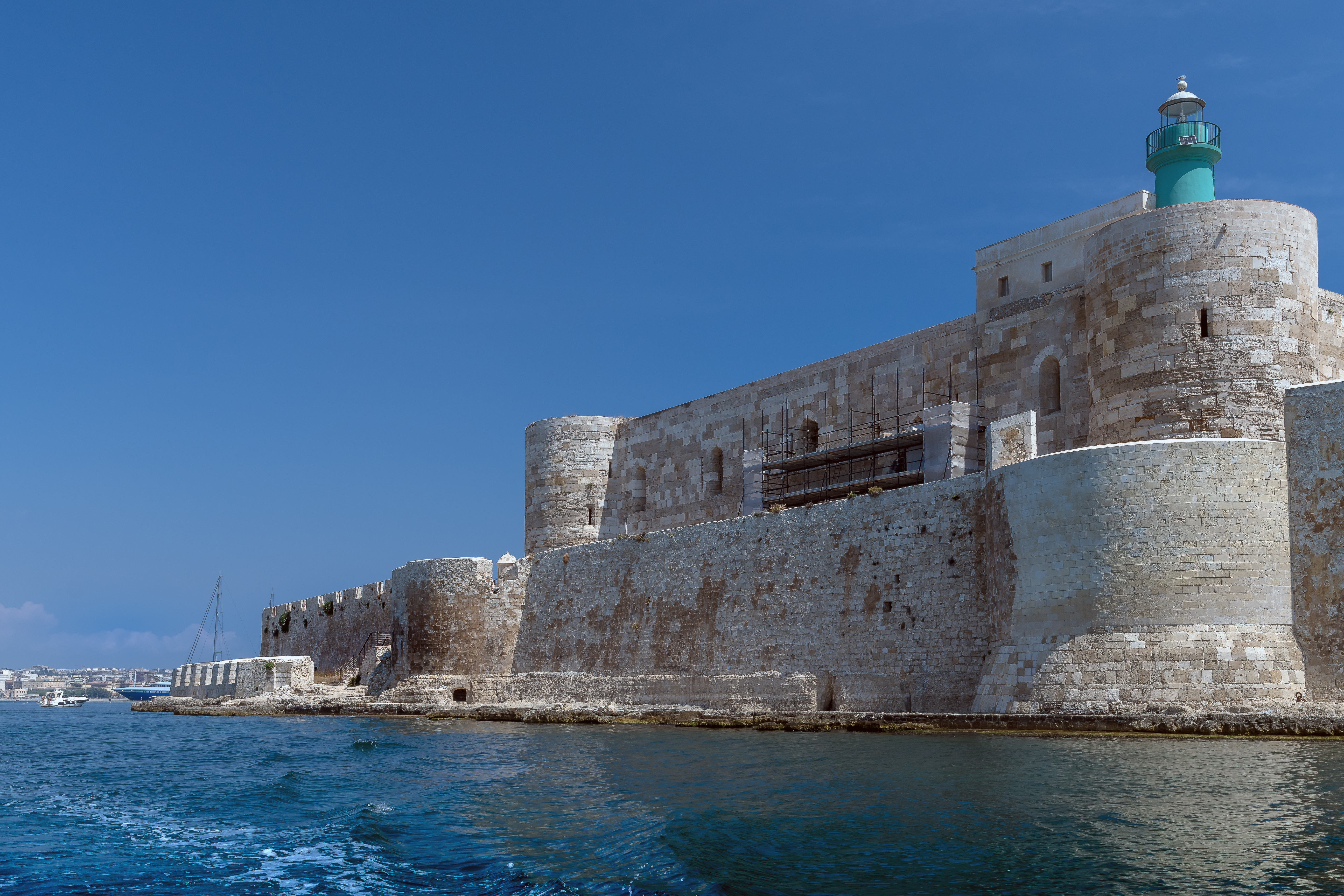 The fortress Castello Maniace in Syracuse with view from the southwest